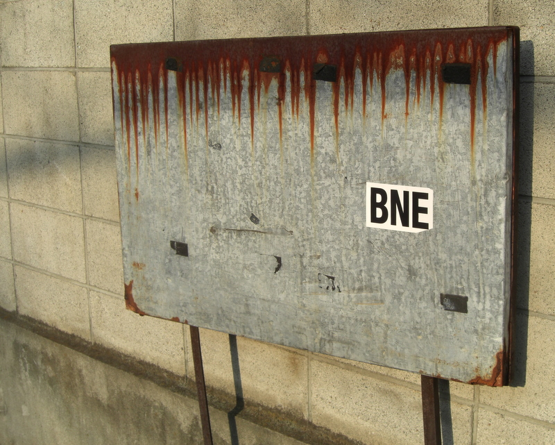 The BNE sticker which was put on the bulletin board (Adachi,Tokyo)